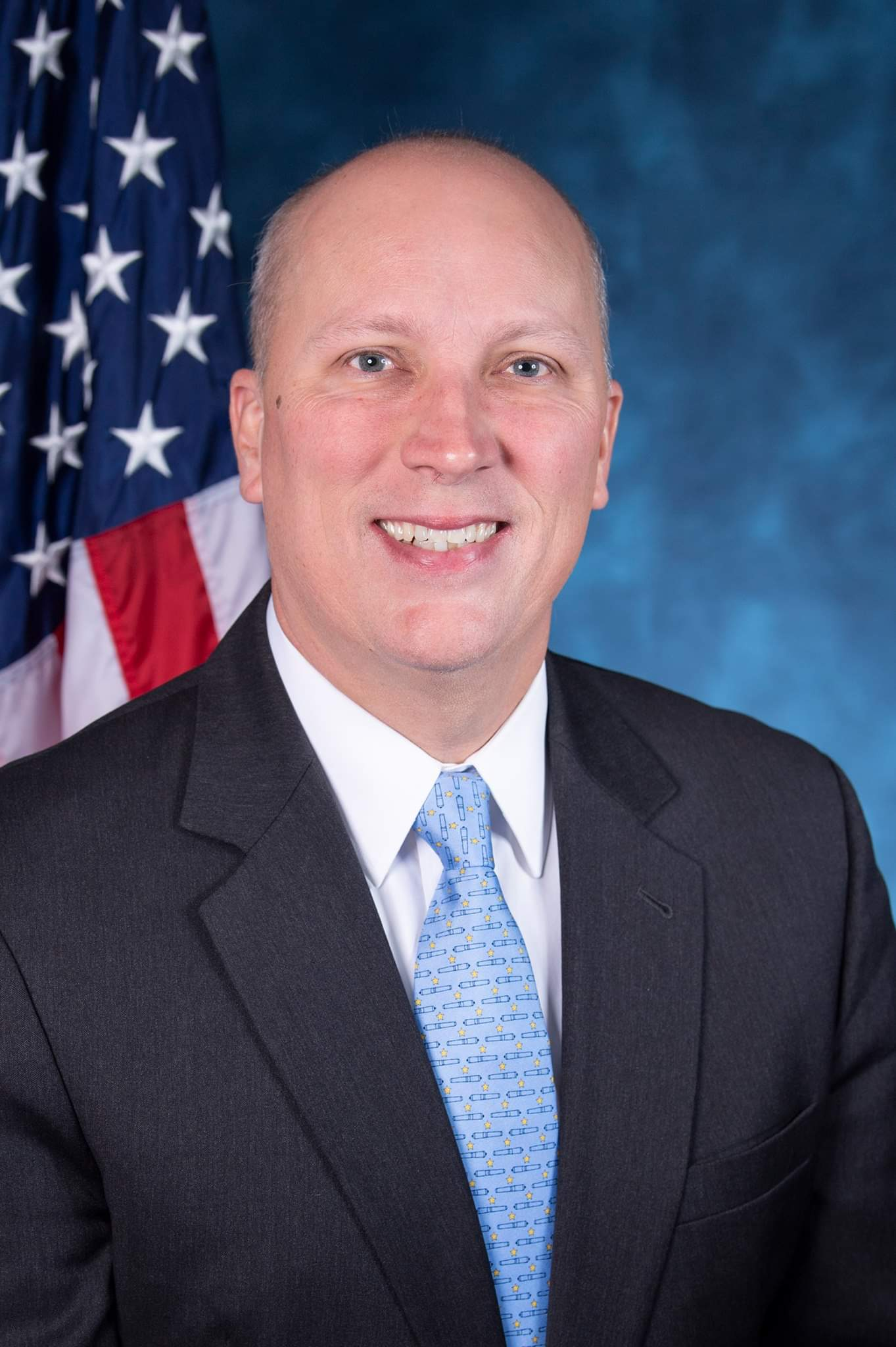 The official headshot of Rep. Chip Roy (R-TX)